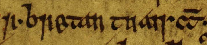 An excerpt from folio 15v of Oxford Bodleian Library MS Rawlinson B 488 (the Annals of Tigernach). The excerpt concerns Máel Coluim mac Domnaill, King of Stathclyde (died 997). The excerpt reads "rí Bretan Tuaisceirt".